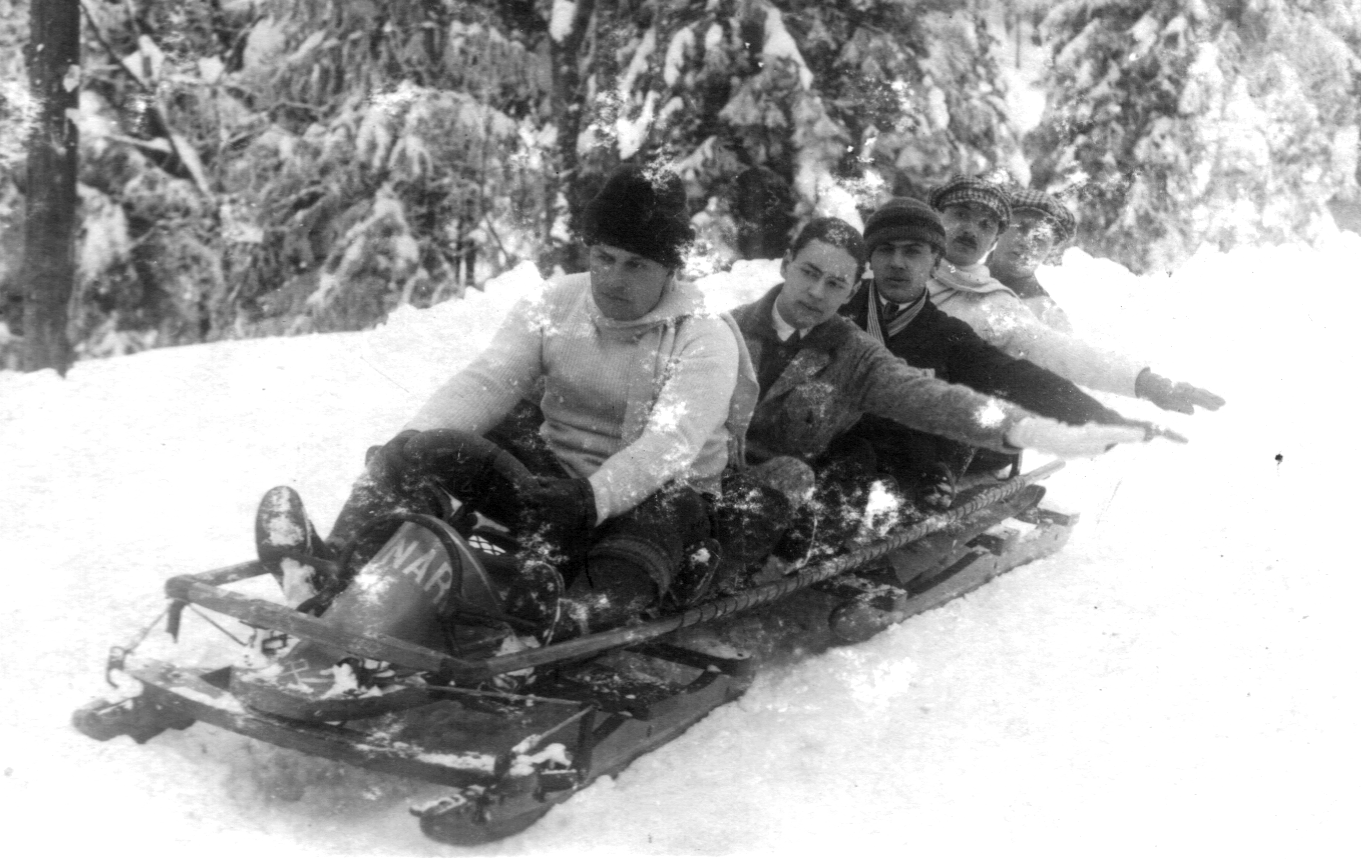 Bobsleigh in 1914 at a contest in Sinaia, Romania